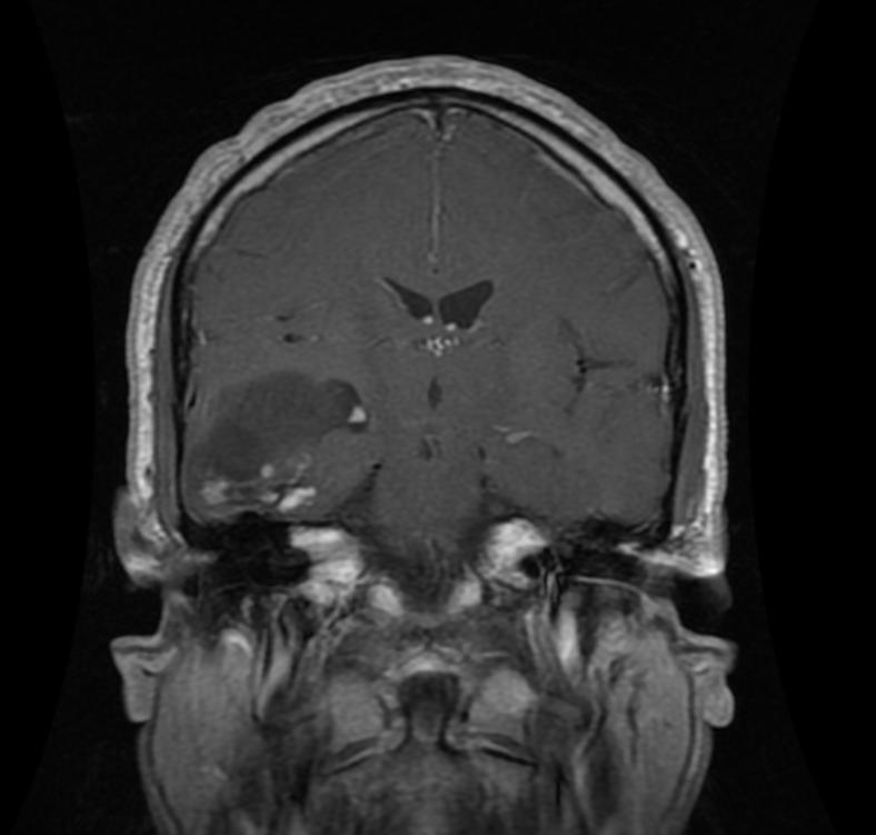 Oligodendroglioma, MRI T1 with gadolinium contrast, coronal section